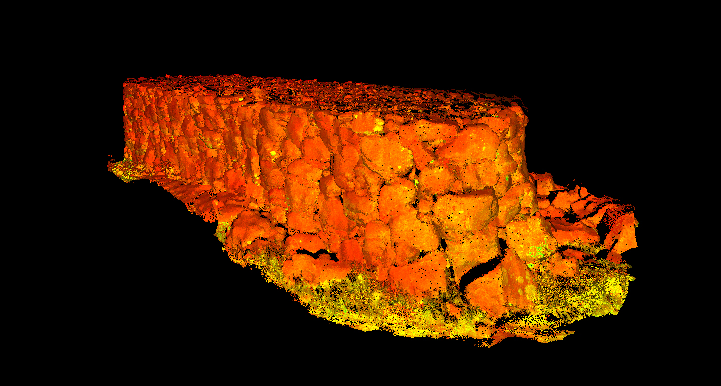 Translated from the term Hare Moa, the Chicken House ruin is a stone construction of a type particular to the Polynesian culture of Rapa Nui. The Hare Moa are the most abundant free-standing permanent constructions on the island;1233 of them have been counted. Built from small pieces of basalt, these structures generally measure around 10 feet wide, 6 feet tall, and 20 feet long, though some examples measuring up to 70 feet in length have been found. The Hare Moas' inner chambers often have both human-sized and animal-sized (chicken) entrances. Evidence points to the use of many of the Hare Moa as coops for chickens during later archaeological periods, though quite a few seem to have originally been built as tombs in earlier phases (pre-protohistoric period) then later re-used as coops. In the case of smaller Hare Moa with no side openings and ill-defined roofs, they served as storage for tubers such as sweet potato and taro. The well-protected nature of these chicken coops could be reflective of the decline of food sources on the island, as well as a dearth of wood and/or reeds that would have been used to build thatch coops in earlier times.